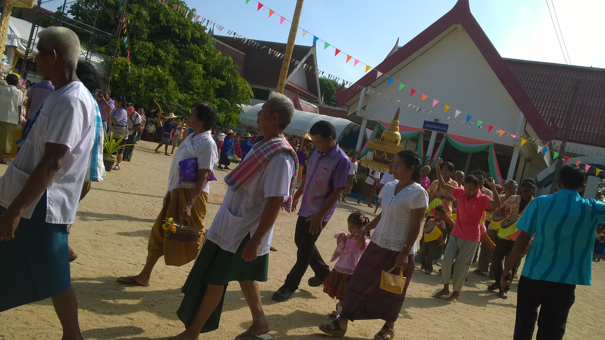 A parade of the local people from different district in Phatthalung Province, celebrating the "Ching Pretah" ceremony.